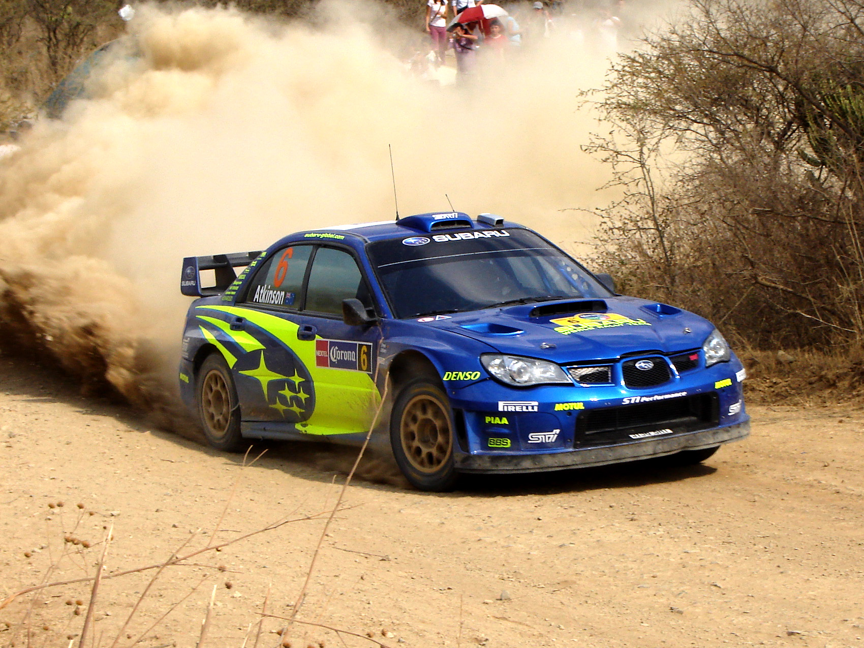 Photo I took to Chris Atkinson at 2008 WRC Corona Rally Mexico running at his Subaru Impreza WRC